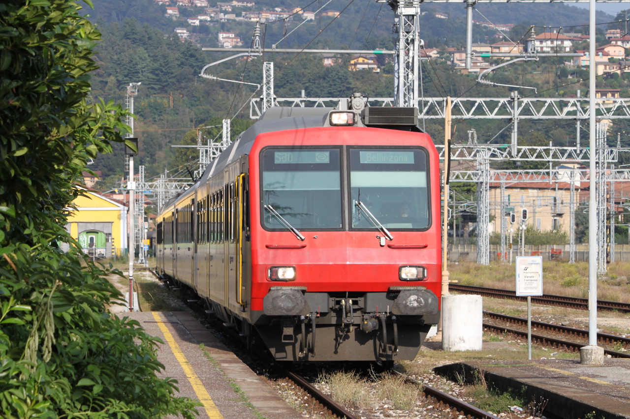 SBB CFF FFS Bt 50 85 29-35 921-0 arriving at Luino ahead of S30 14339 from Cadenazzo.